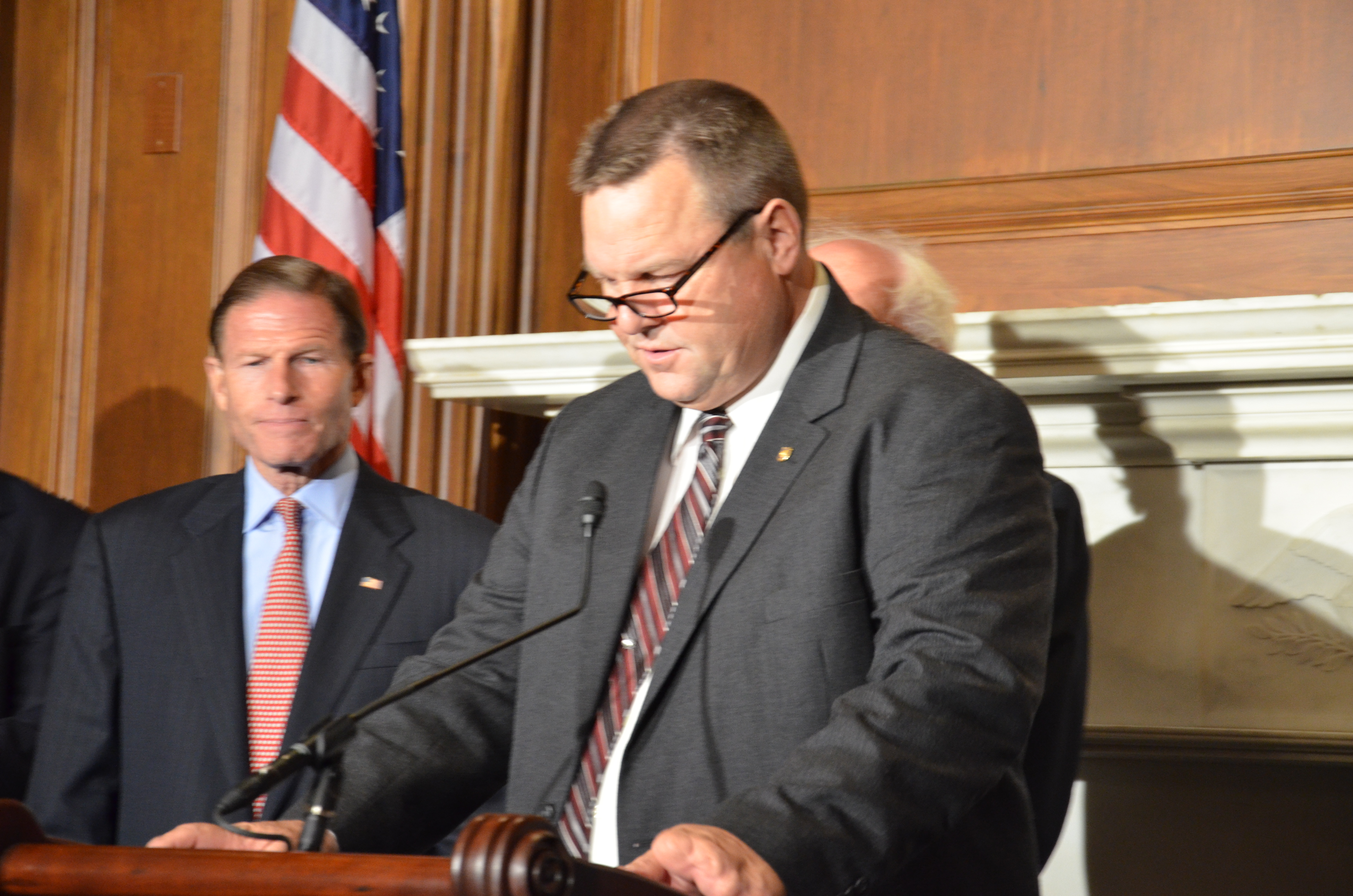 AFGE VA Local 940 Vice President Eleanor Davis Wescott spoke at a press conference led by Sen. Bernie Sanders on the impact the government shutdown is having on the delivery of services to America's veterans.